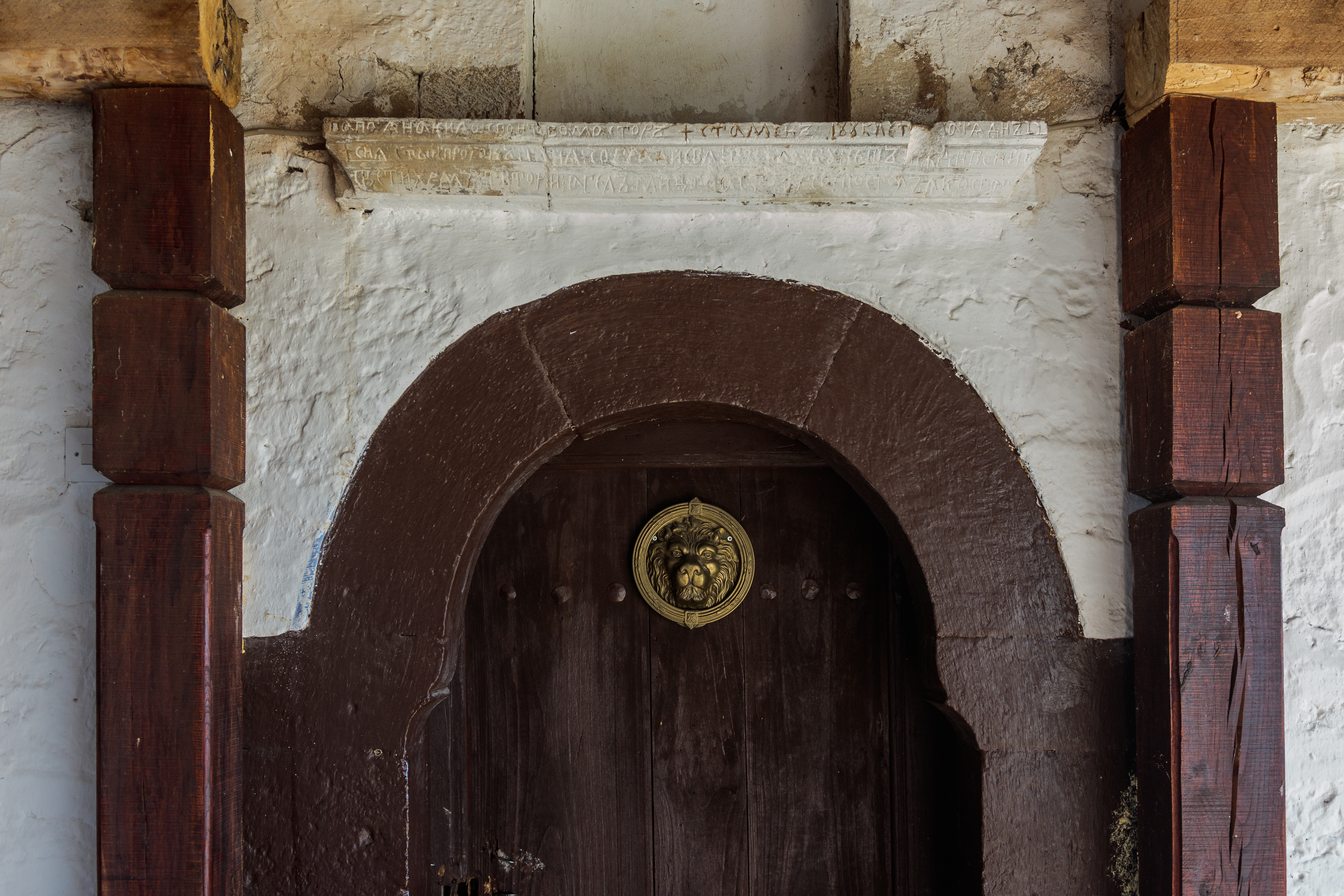 The opening door of the St. Elijah Church in the village of Buneš, Zletovo-Probištip Region, Macedonia